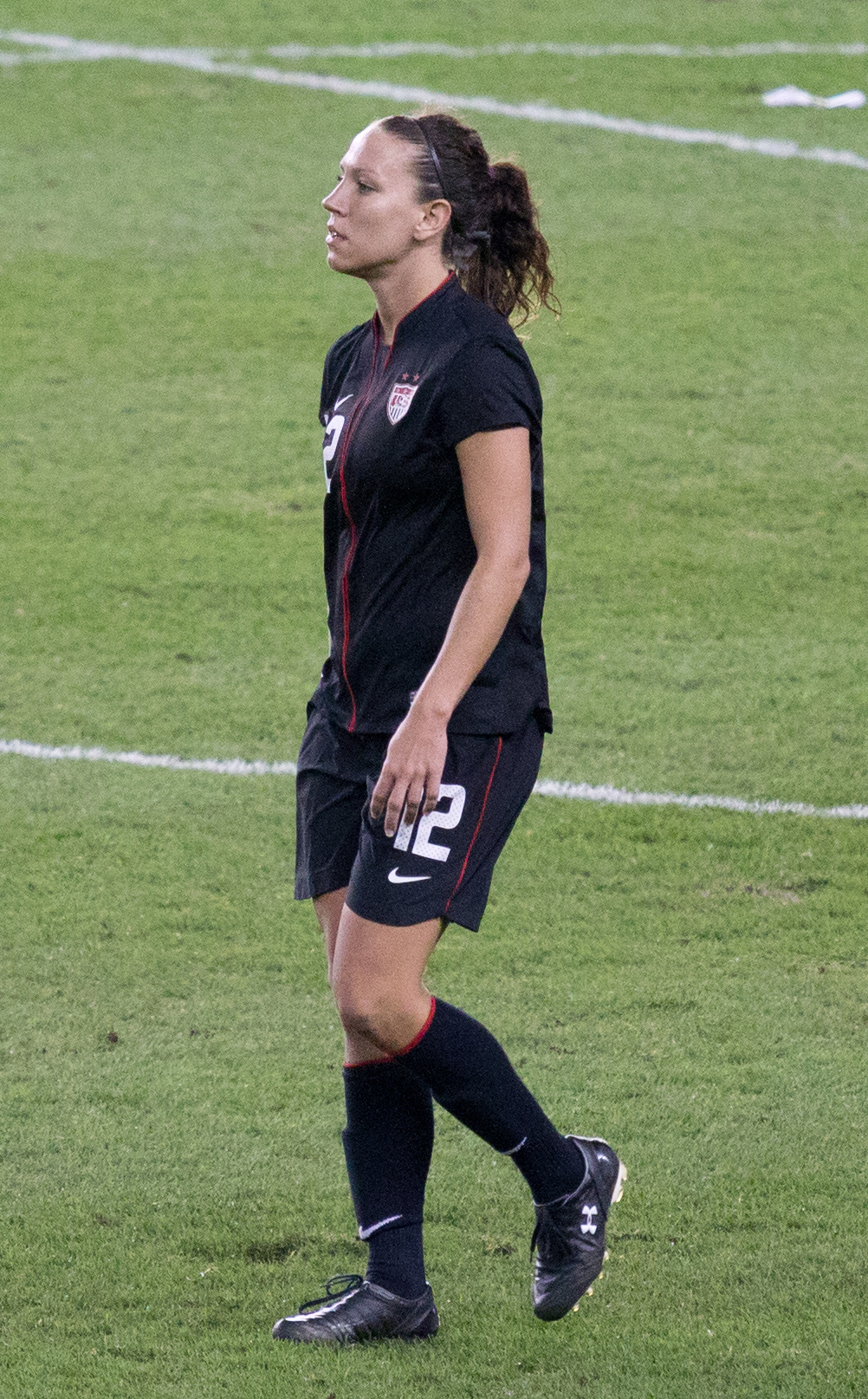 Lauren Cheney of the United States Women's National Soccer in a friendly match against Canada on September 17th, 2011.